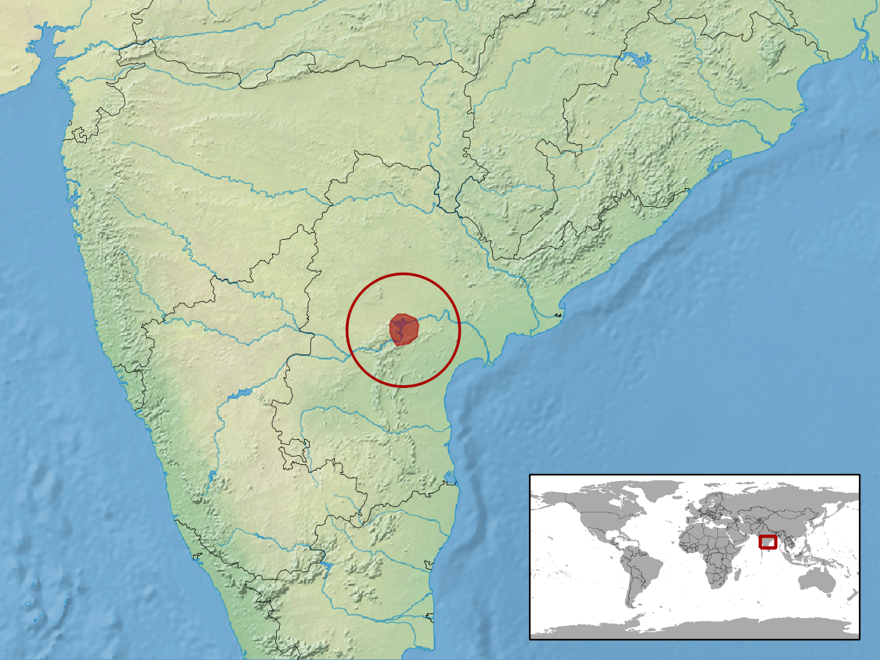 geographic distribution of Coluber bholanathi (Native: India (Andhra Pradesh))